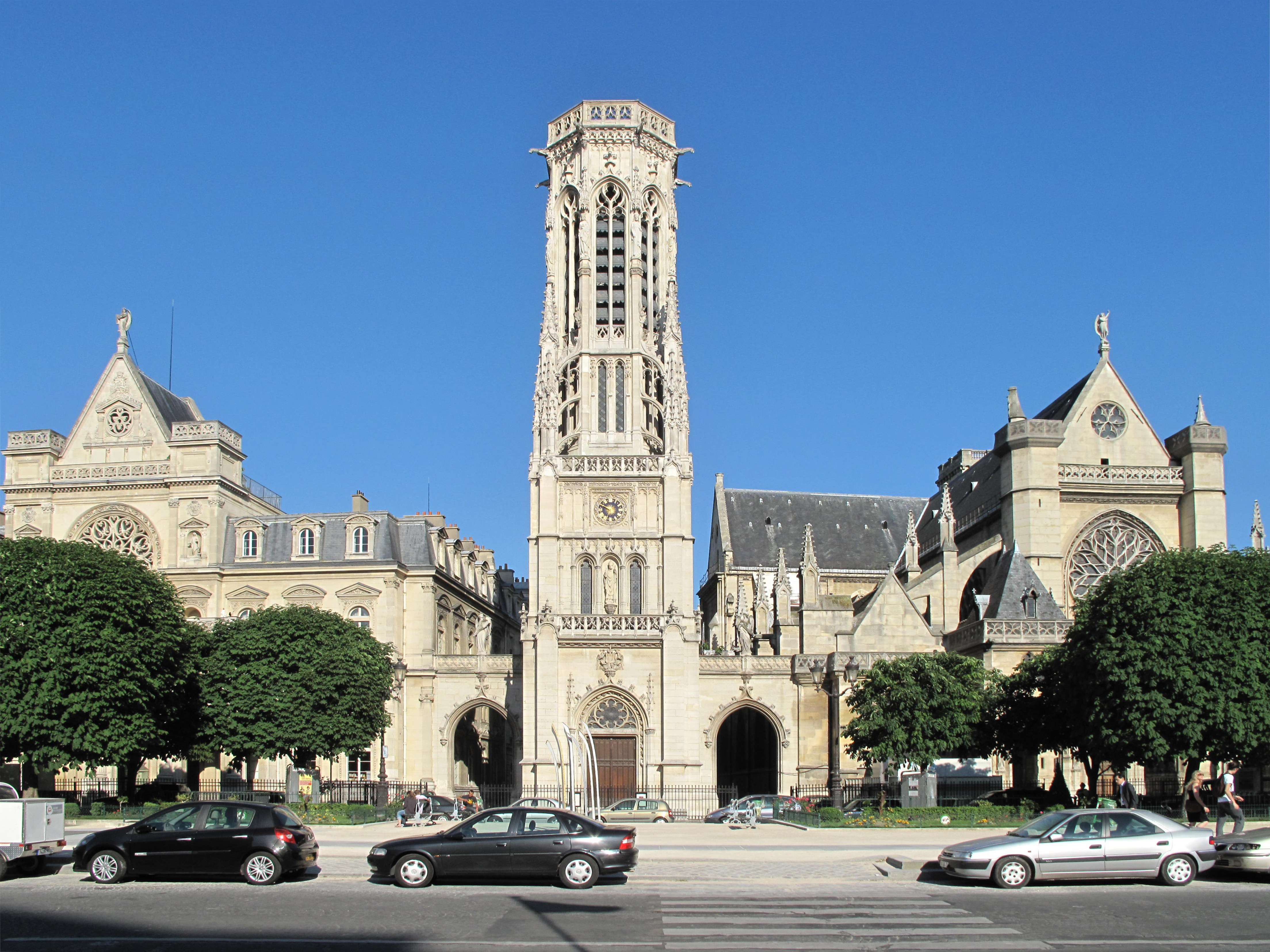 The church of Saint-Germain-l'Auxerrois and the 1st arrondissement town hall. The two buildings are symmetric. It is hard to differentiate them.